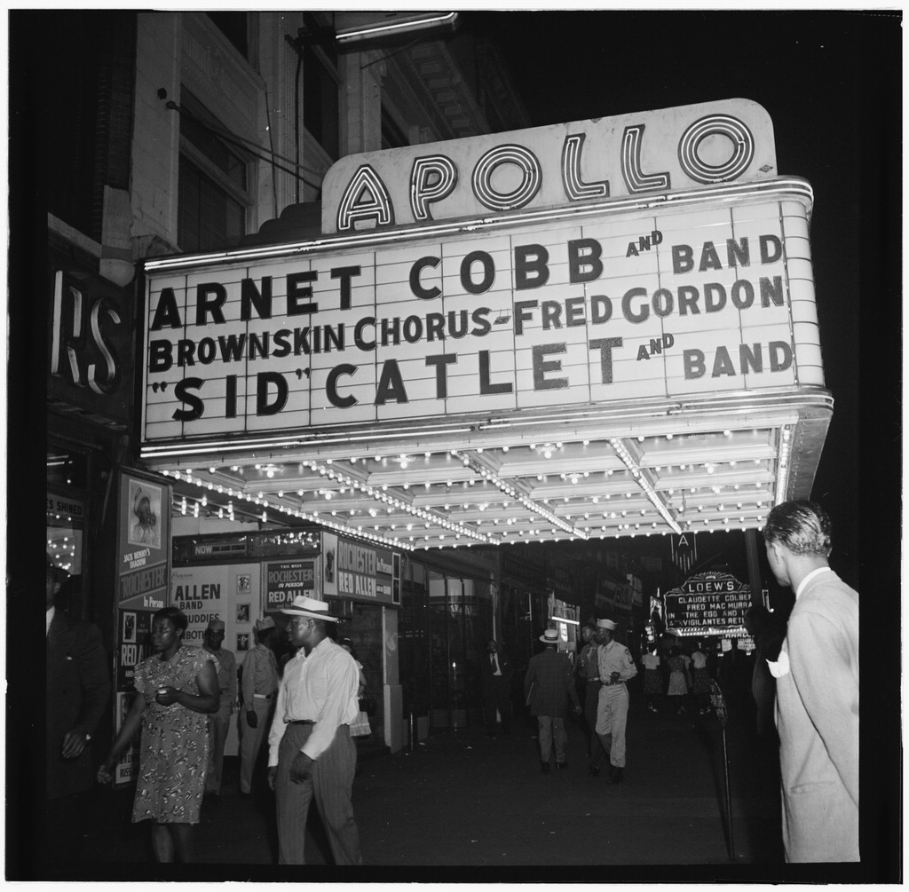 Night view of the Apollo Theatre marquee, New York, N.Y., between 1946 and 1948